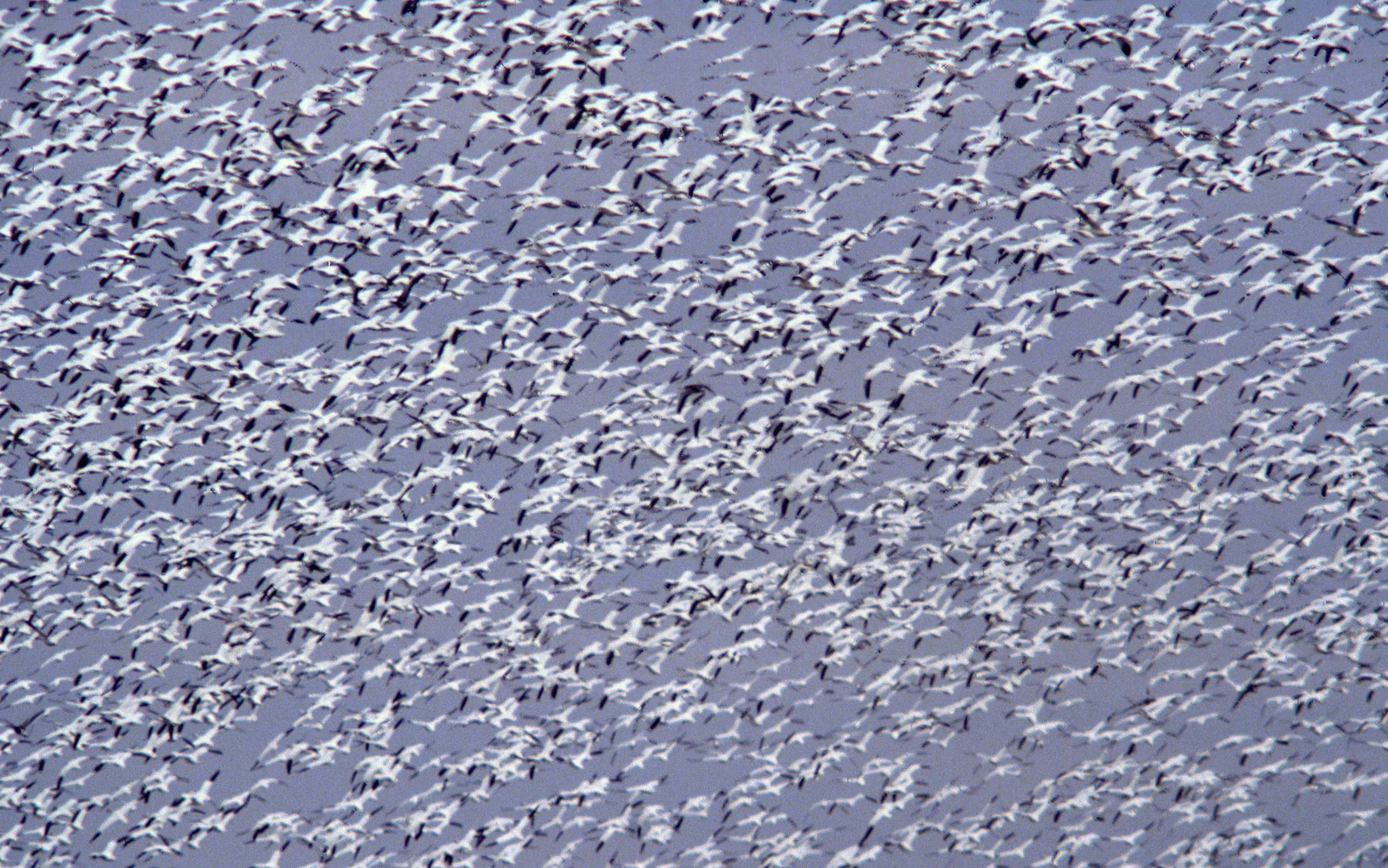 Bombay Hook National Wildlife Refuge, DE. Credit: USFWS